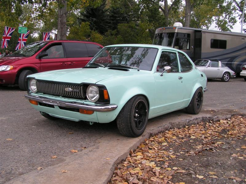 Toyota Corolla spotted at VSCCC European Classic Car Show.